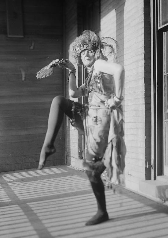 Baroness Von Freytag -- Loringhoven